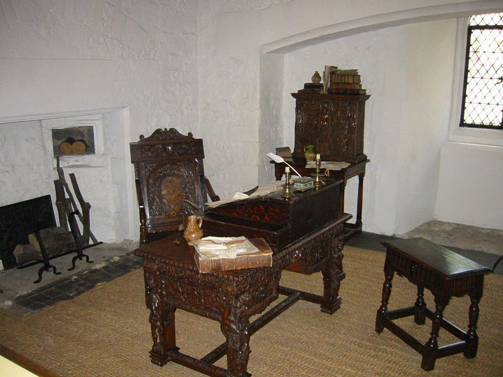 Bloody Tower interior, Tower of London